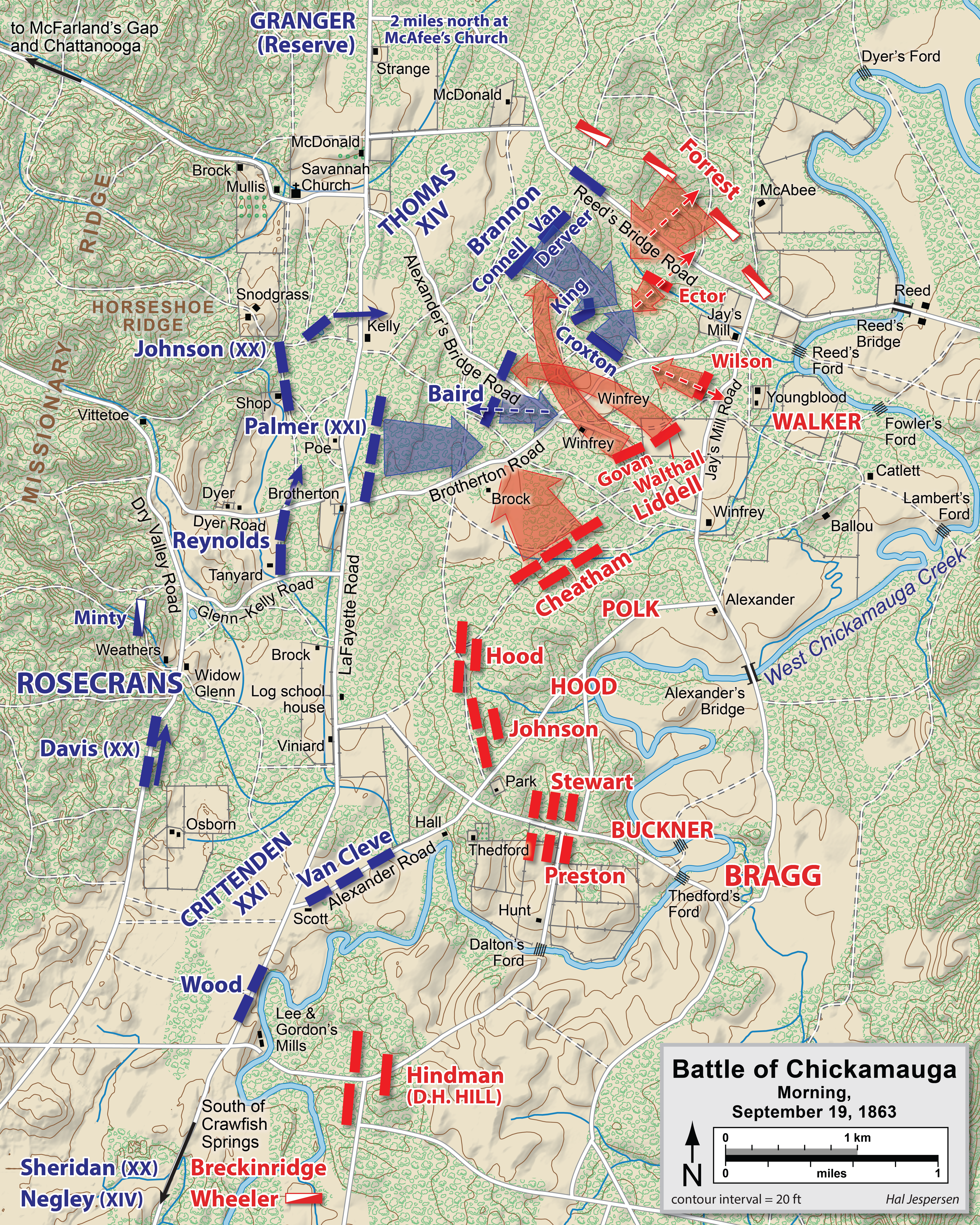 Map of the Battle of Chickamauga (part 1) of the American Civil War. Drawn in Adobe Illustrator CS5 by Hal Jespersen. Graphic source file is available at